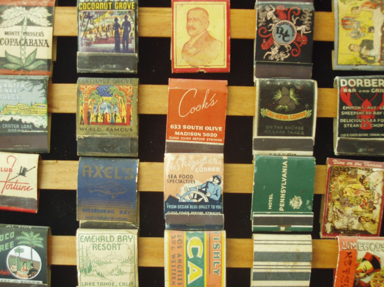 A small sample of a match box collection, or phillumeny.